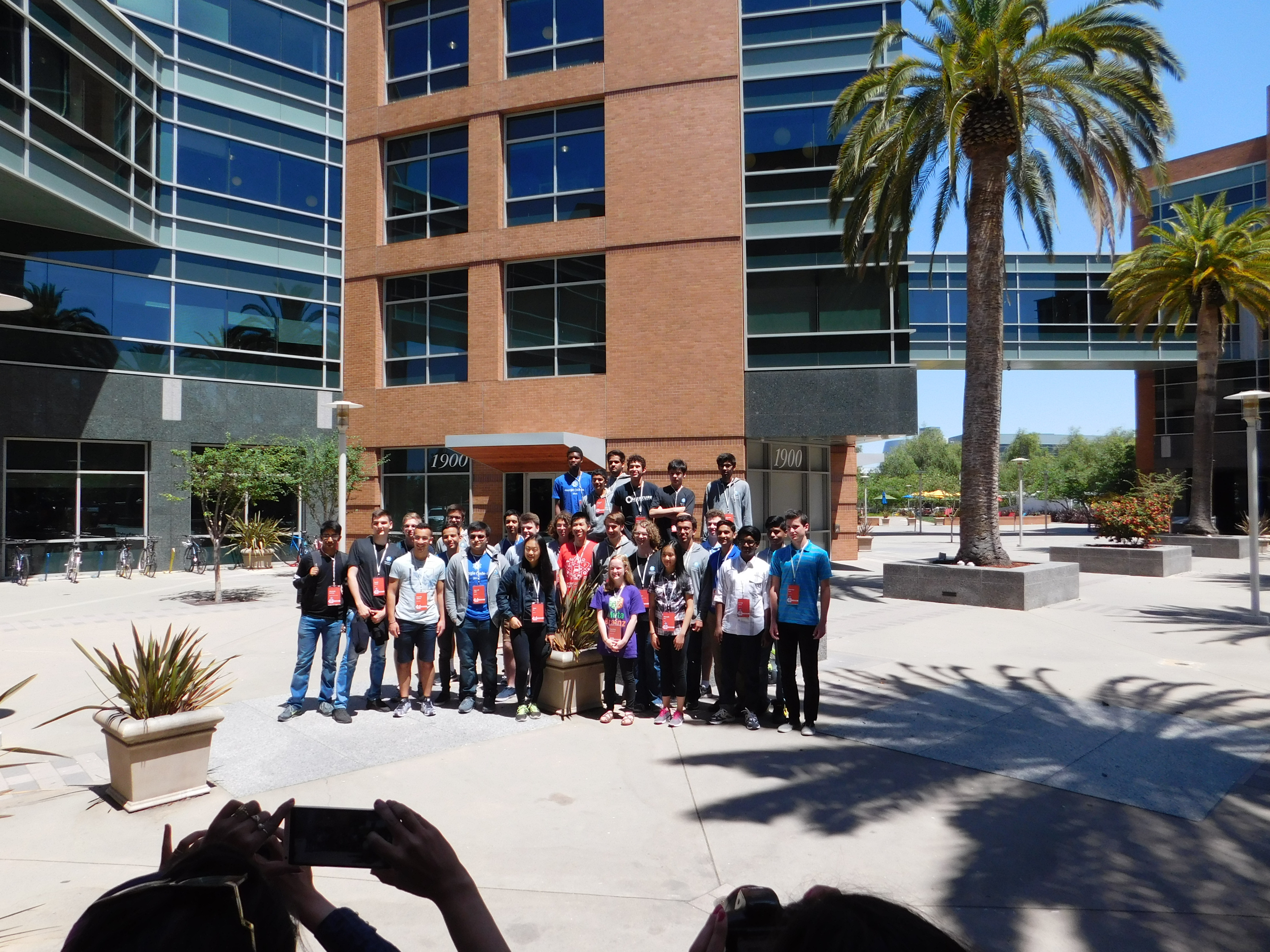 Photo taken at the winner ceremony of the Google Code-in 2015 event at Mountain View.